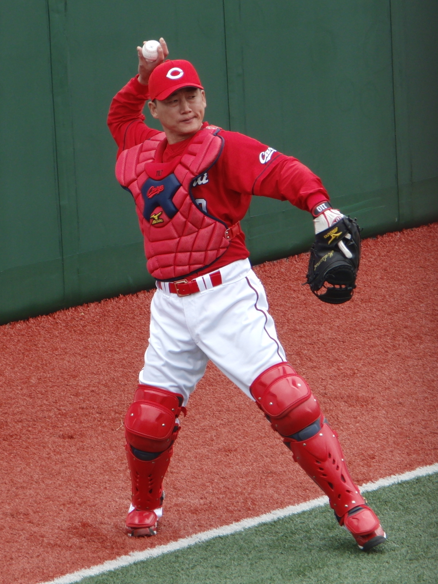 Takashi Matsumoto, bullpen catcher of the Hiroshima Toyo Carp, at Miyagi Baseball Stadium.